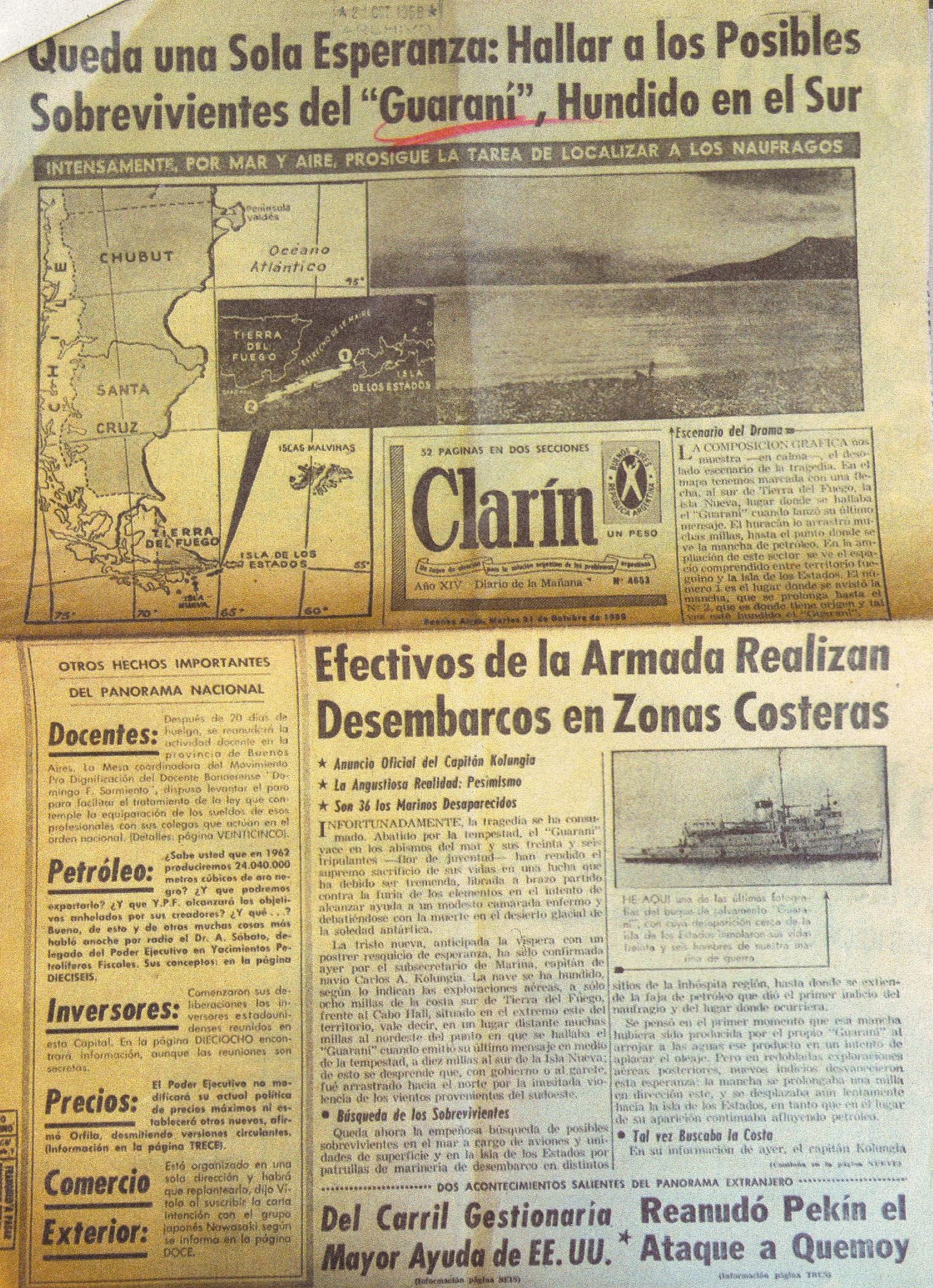 Argentine newspaper Clarin(.com) about search of "ARA Guarani" October 1958